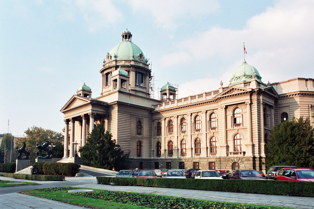 House of the National Assembly of Serbia